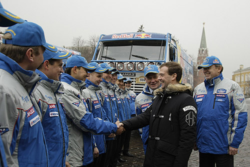 THE KREMLIN, MOSCOW. With the members of the KAMAZ-Master Team.